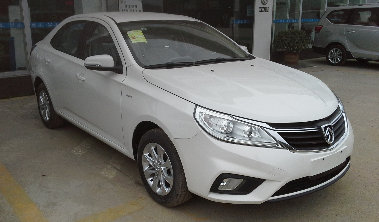 Baojun 630 facelift photographed in Liuzhou, Guangxi province, China.